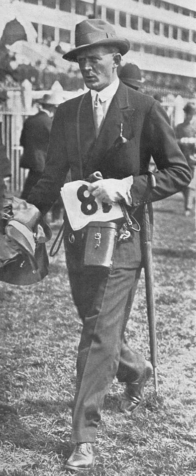 'Lord Westmorland asserts: A Cocktail Without Booth's Is A Cocktail Under A Handcap' (c1935), from 'An Anthology Of Cocktails, Together With Selected Observations' (Dorland Advertising Ltd).